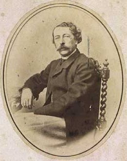 Wilhelm Frederik Ludvig Theodor von Levetzau (1820-1888), Danish-German district officer